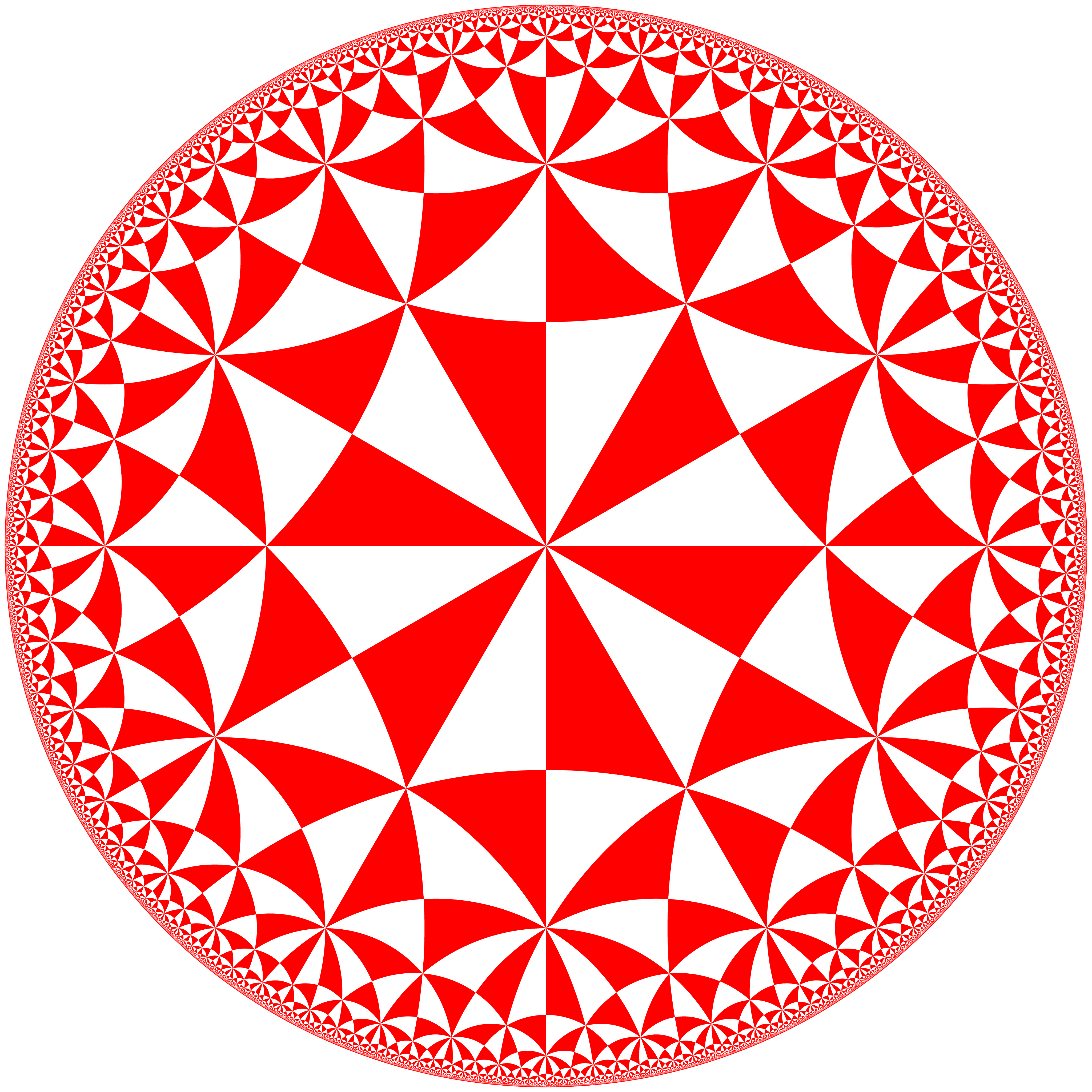 Hyperbolic tiling of (p q r) fundamental domain triangles, in Poincaré Disc projection, colored red for odd reflections. View centered on p, or labeled b,c for q,r points. Topology and and Geometry Software, Jeff Weeks, cropped from KaleidoTile (software)